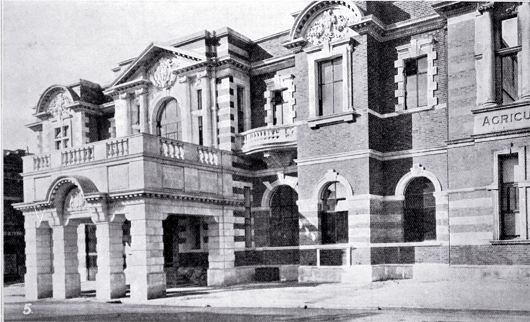 Built on the site of the Canterbury Hall which had been destroyed by fire in 1917, the offices were opened on 1 September 1924. The façade of His Majesty's Theatre, which had been part of the Canterbury Hall, was able to be incorporated in the new structure. The portico was later demolished.